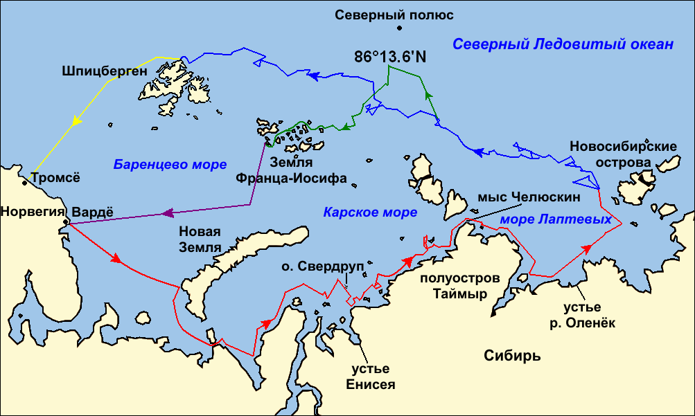 Map of the Arctic Ocean showing the routes taken during the 1893–96 Nansen's Fram expedition: Frams's route eastward from Vardø to the Siberian coast, turning north at the New Siberian Islands to enter the pack ice. July – September 1893 Fram's drift in the ice from the New Siberian Islands, north and west to Spitsbergen, September 1893 – August 1896 Nansen and Johansen's march to Farthest North, 80°20'N, and their subsequent retreat to Cape Flora in Franz Josef Land. February 1895 – June 1896 Nansen and Johansen's return to Vardø from Cape Flora, August 1896 Fram's voyage from Spitsbergen to Tromsø, August 1896